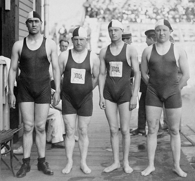 The bronze medal winning 4 x 200 metre freestyle relay team from Great Britain at the Olympic Games in Antwerp, circa August 1920. Left to right: Harold Annison, Henry Taylor, Edward Percival Peter and Leslie Savage.